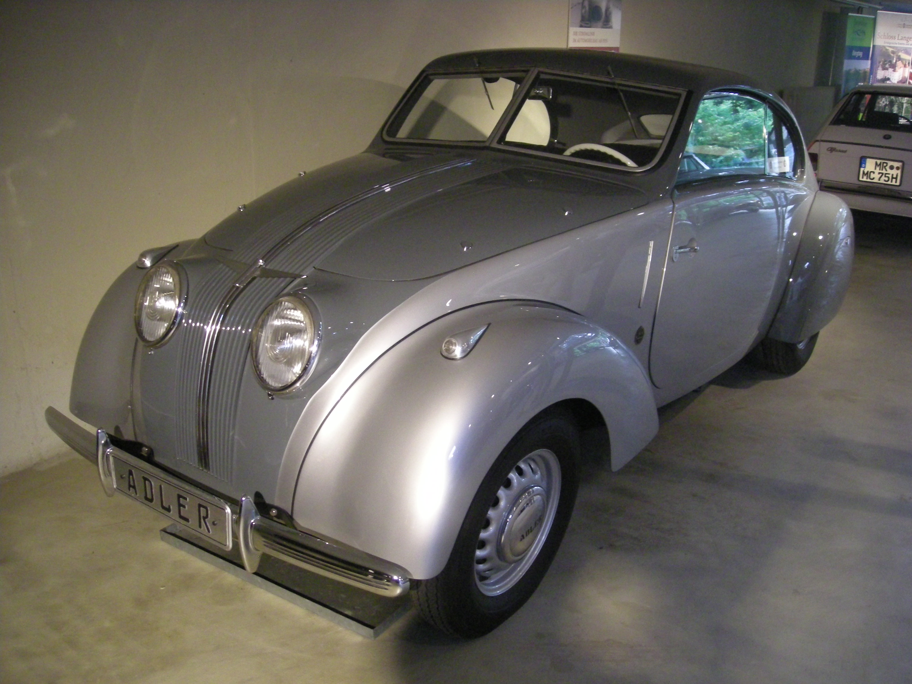 A 1938 Adler Autobahn 2.5 Litre Sport by Gläser of Dresden inside the Deutsches Automuseum in Langenburg, Baden-Württemberg (Germany).